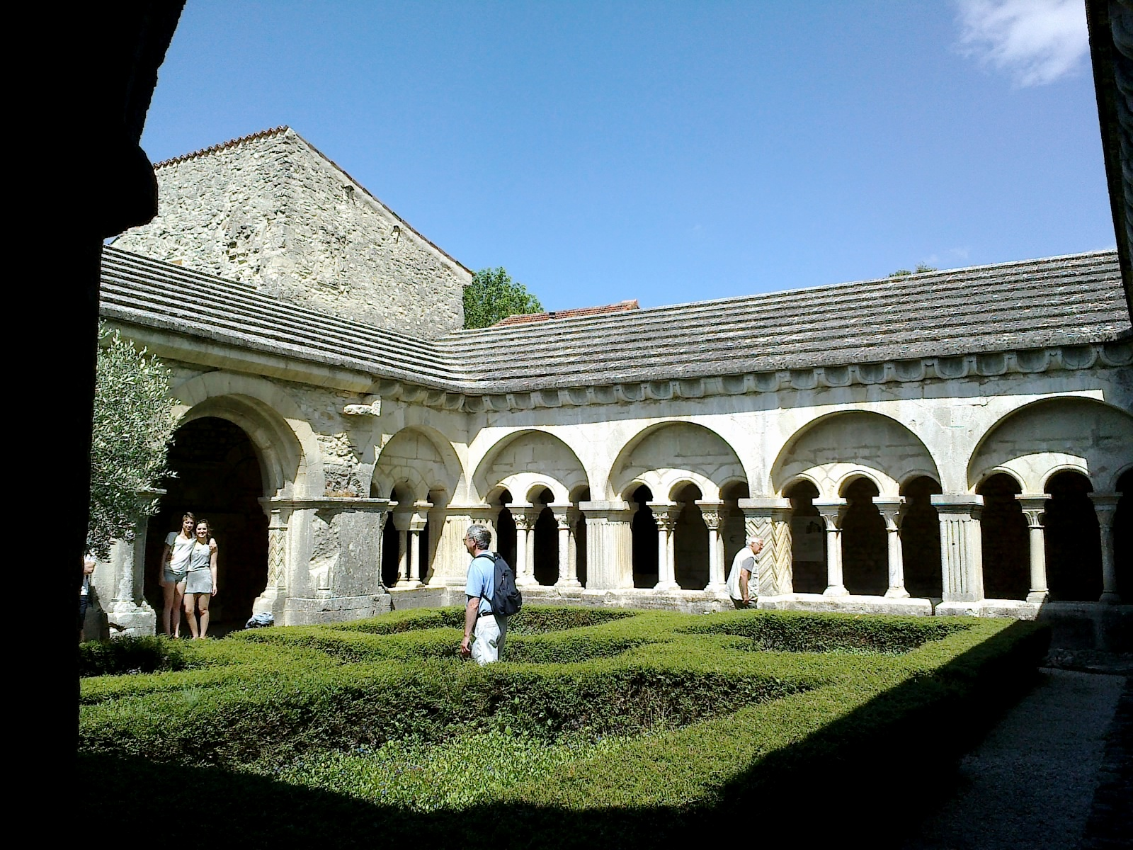 Vaucluse Vaison-La-Romaine Cathedrale Notre-Dame-Nazareth Cloitre